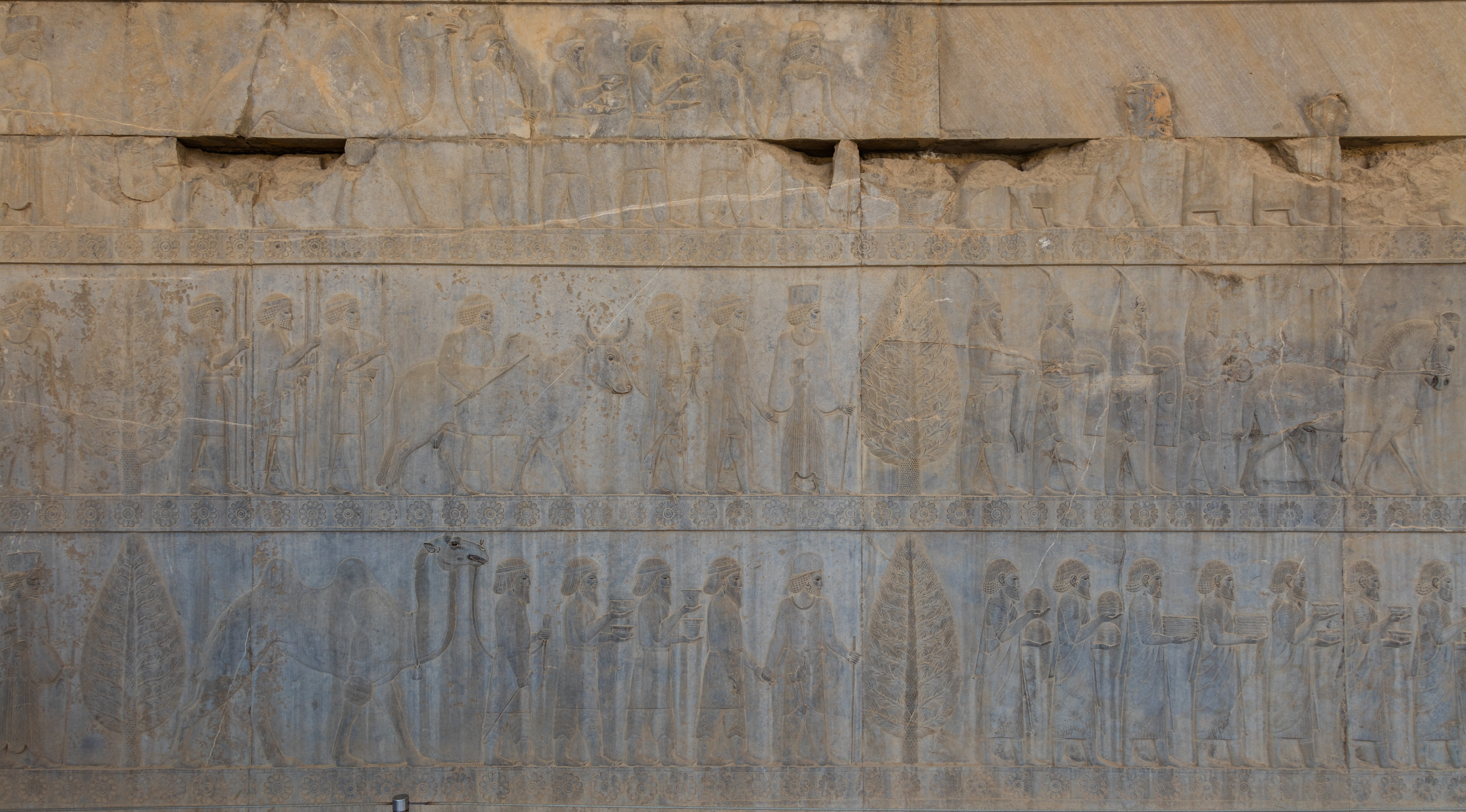 Persepolis, Iran